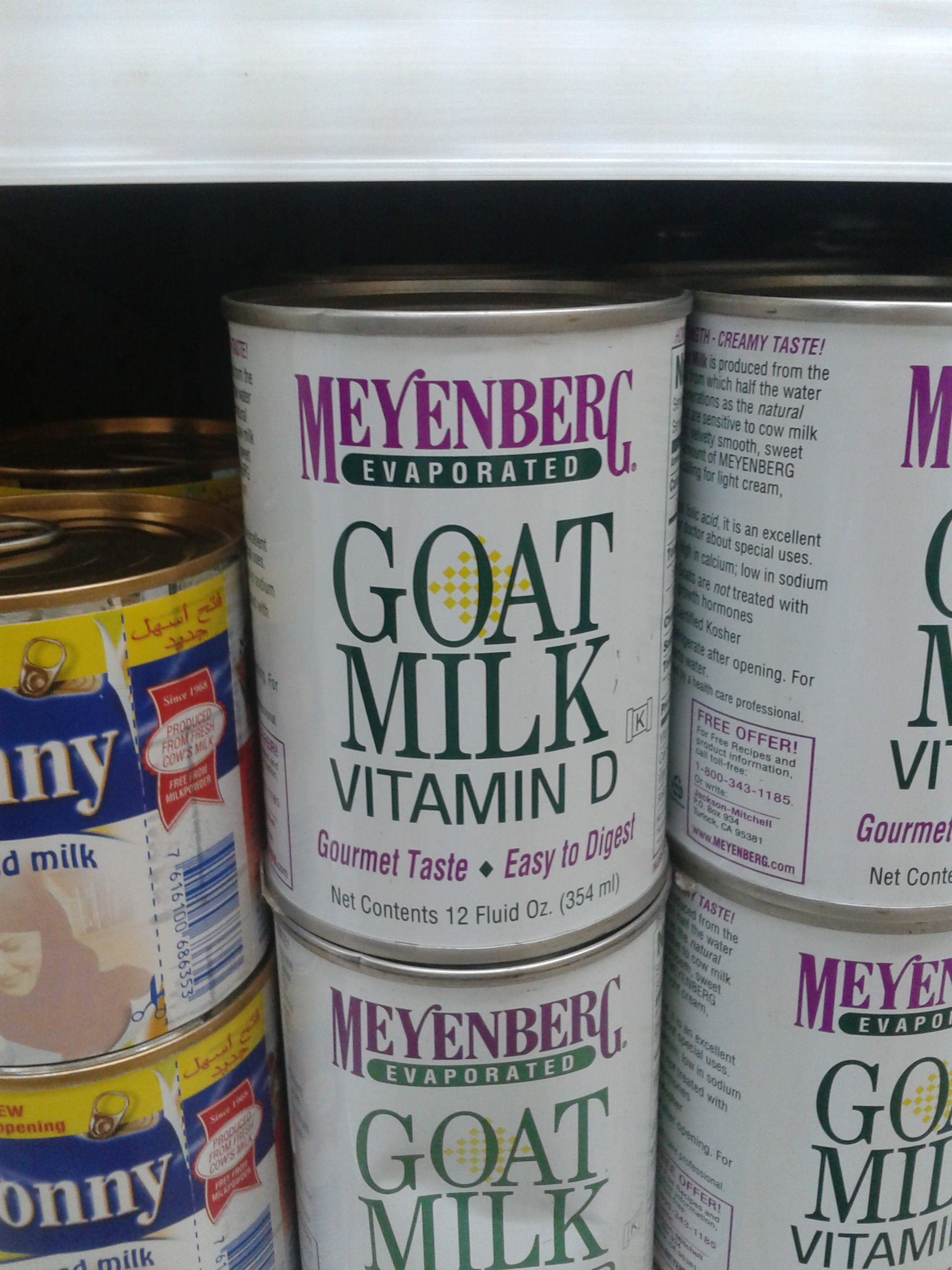 Cans of condensed goat milk on store shelves